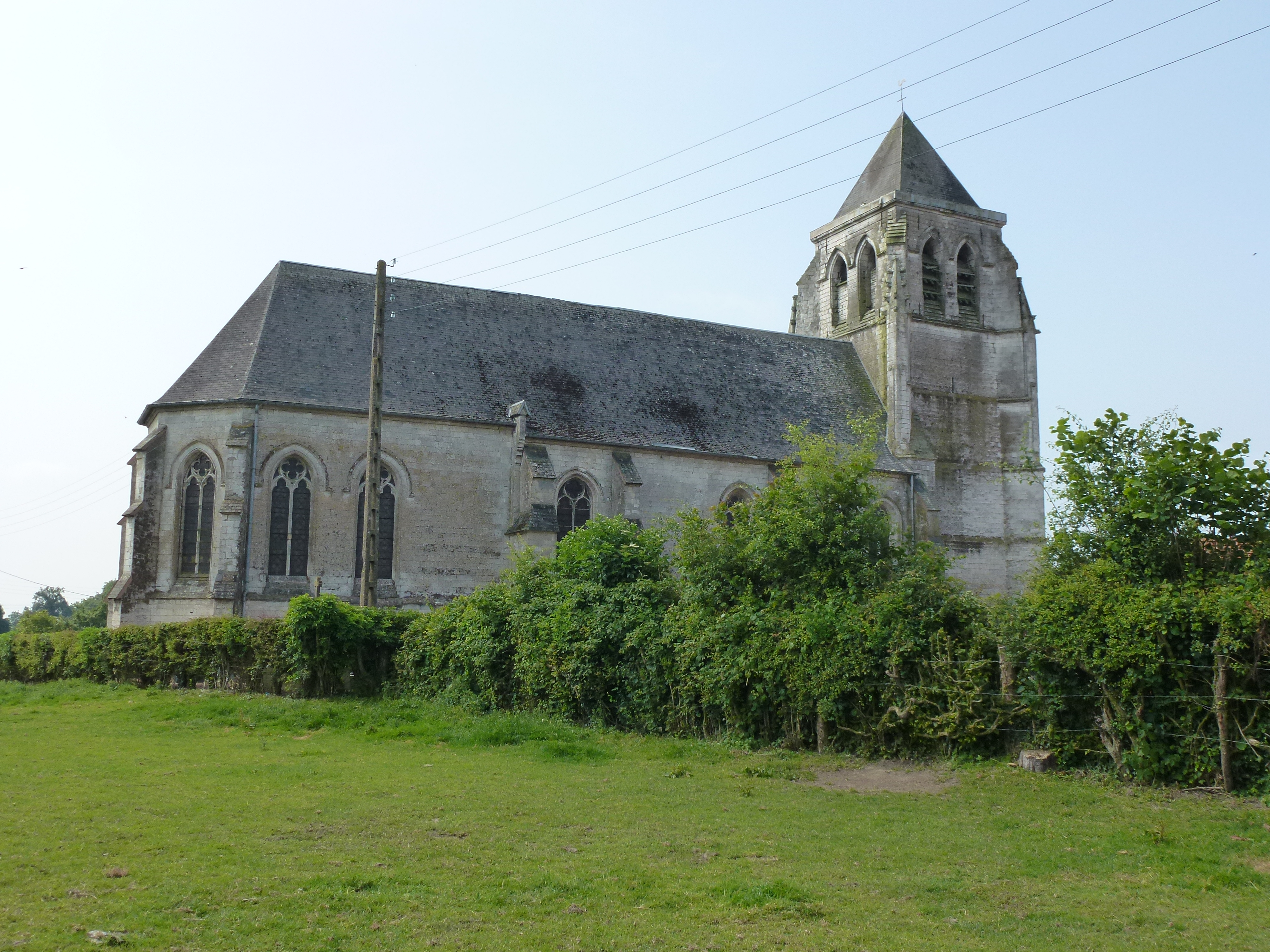 Laires (Pas-de-Calais) église Saint-Martin